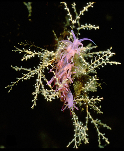 Photo of Flabellina affinis (Gmelin, 1791) (Dexiarchia, Aeolidoidea) from the Mediterranean, on its food Eudendrium racemosum (Cnidaria, Hydrozoa).